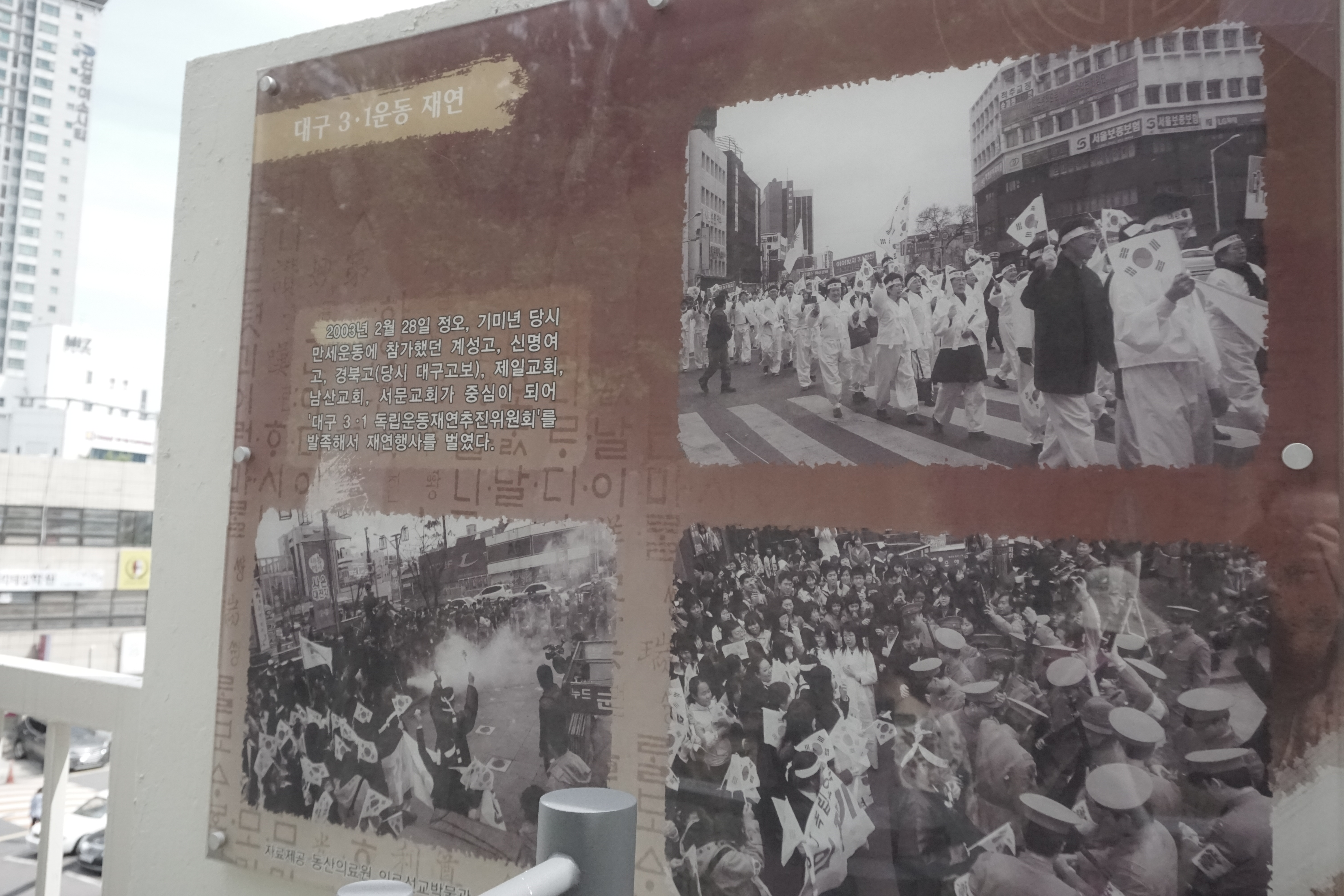 Historic Photograph on March 1 Independence Road